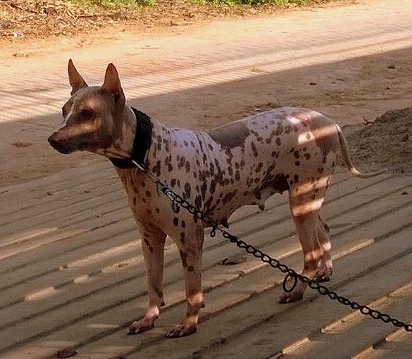 Jonangi from Krishna District